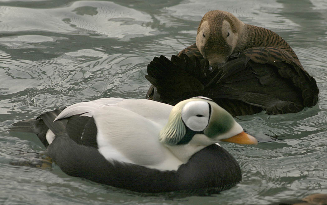 Spectacled Eider (Somateria fischeri) Male and Female, Alaska SeaLife Center, Seward, Alaska